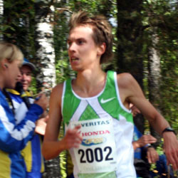 Finnish long-distance runner Jussi Utriainen at eCross cross-country competition 2006. Photo by Jonny Smeds.